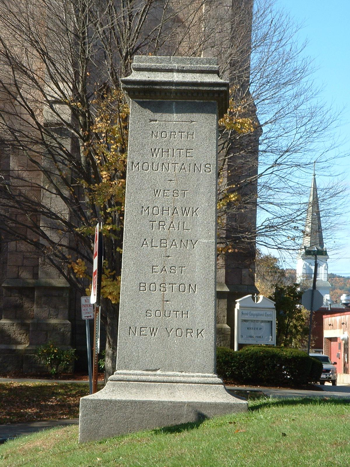 The marker in Court House Square, Greenfield, Massachusetts, which points out the directions to the White Mountains, Mohawk Trail, Albany, Boston and New York.